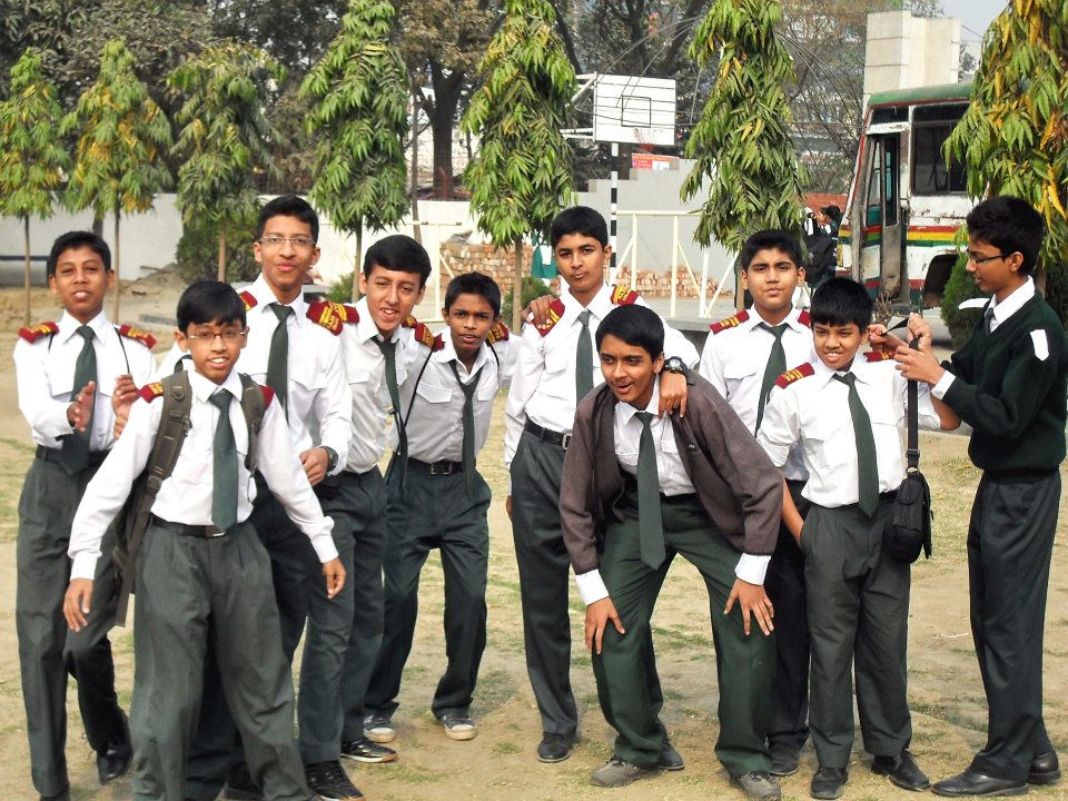 Students of class seven.